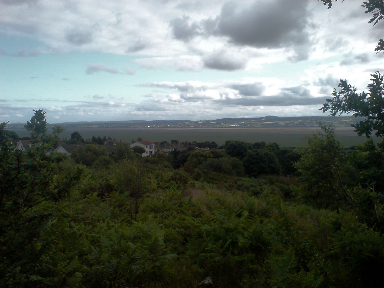 View of Heswall Dales